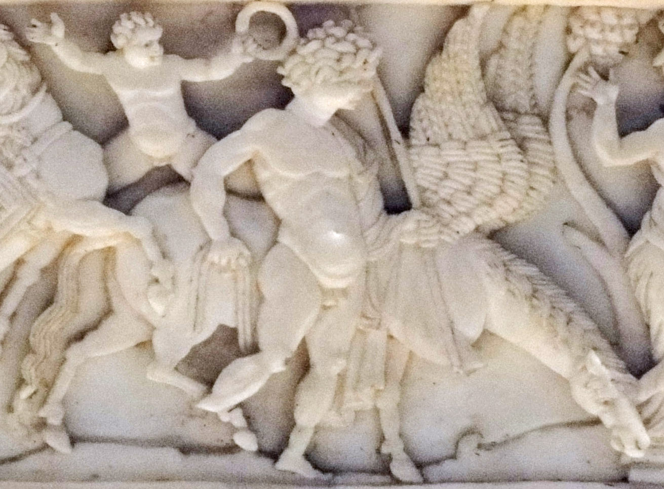 Fine detail showing the figure of Bellerophon on the Veroli casket.